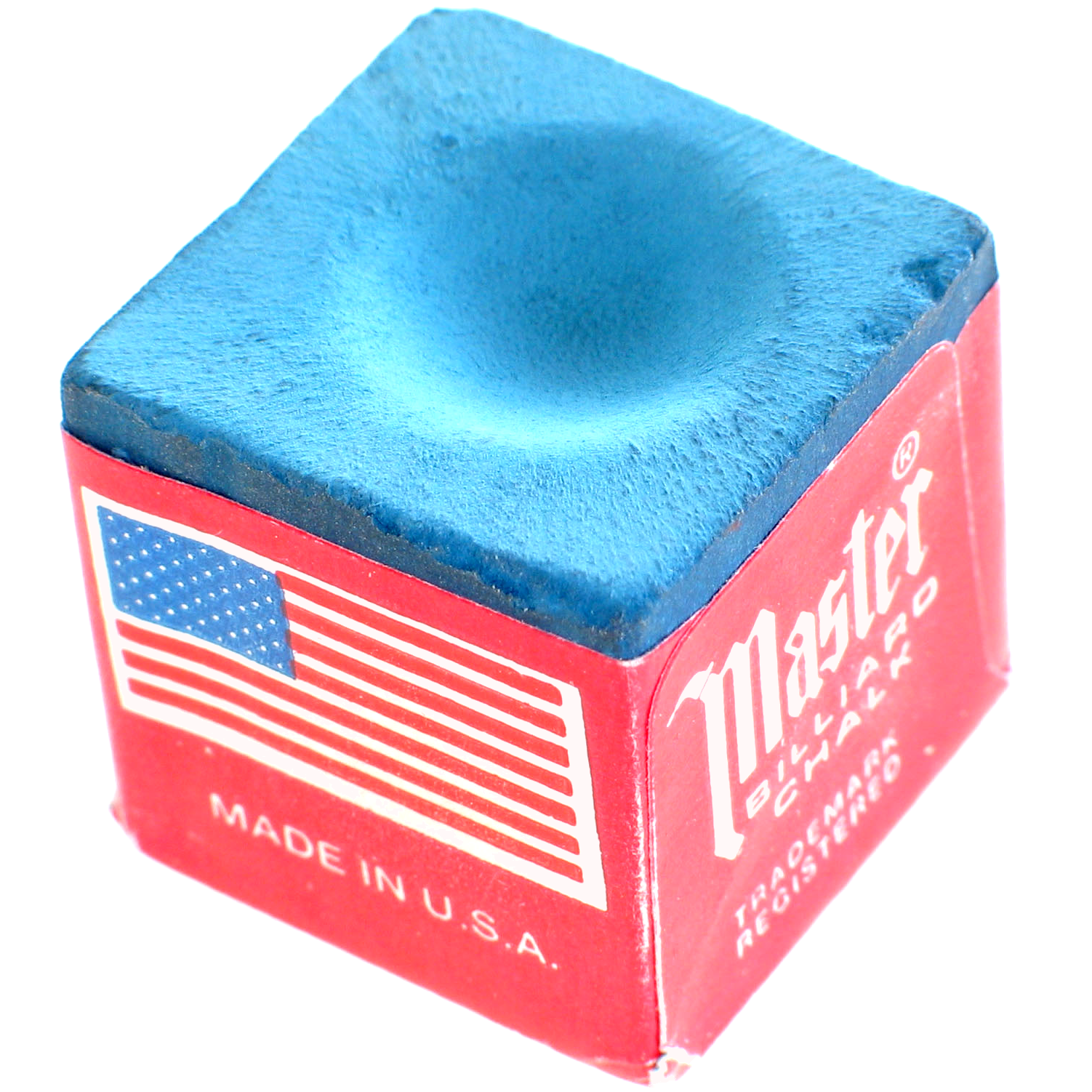 Billiard chalk, photo taken in Sweden